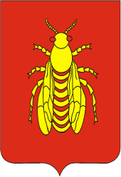 Coat of Arms of Vidzy Беларуская (тарашкевіца): Герб Відзаў